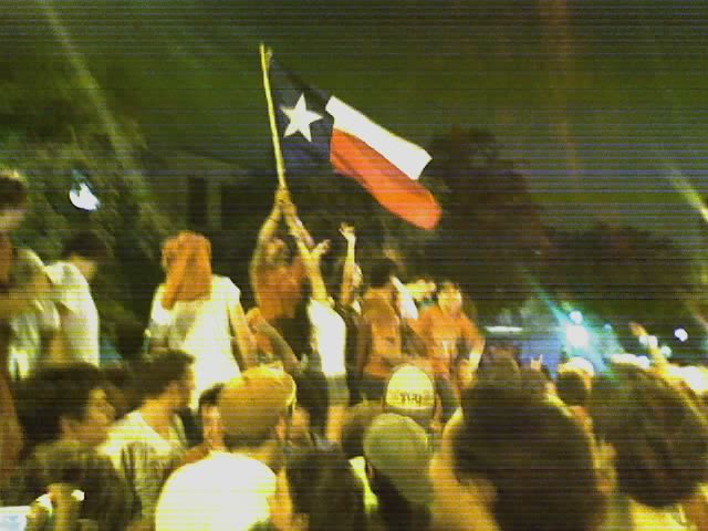 Source= Attribution is required. Original author is tfduessing at Flickr. Source= Attribution is required. Original author is tfduessing at Flickr.